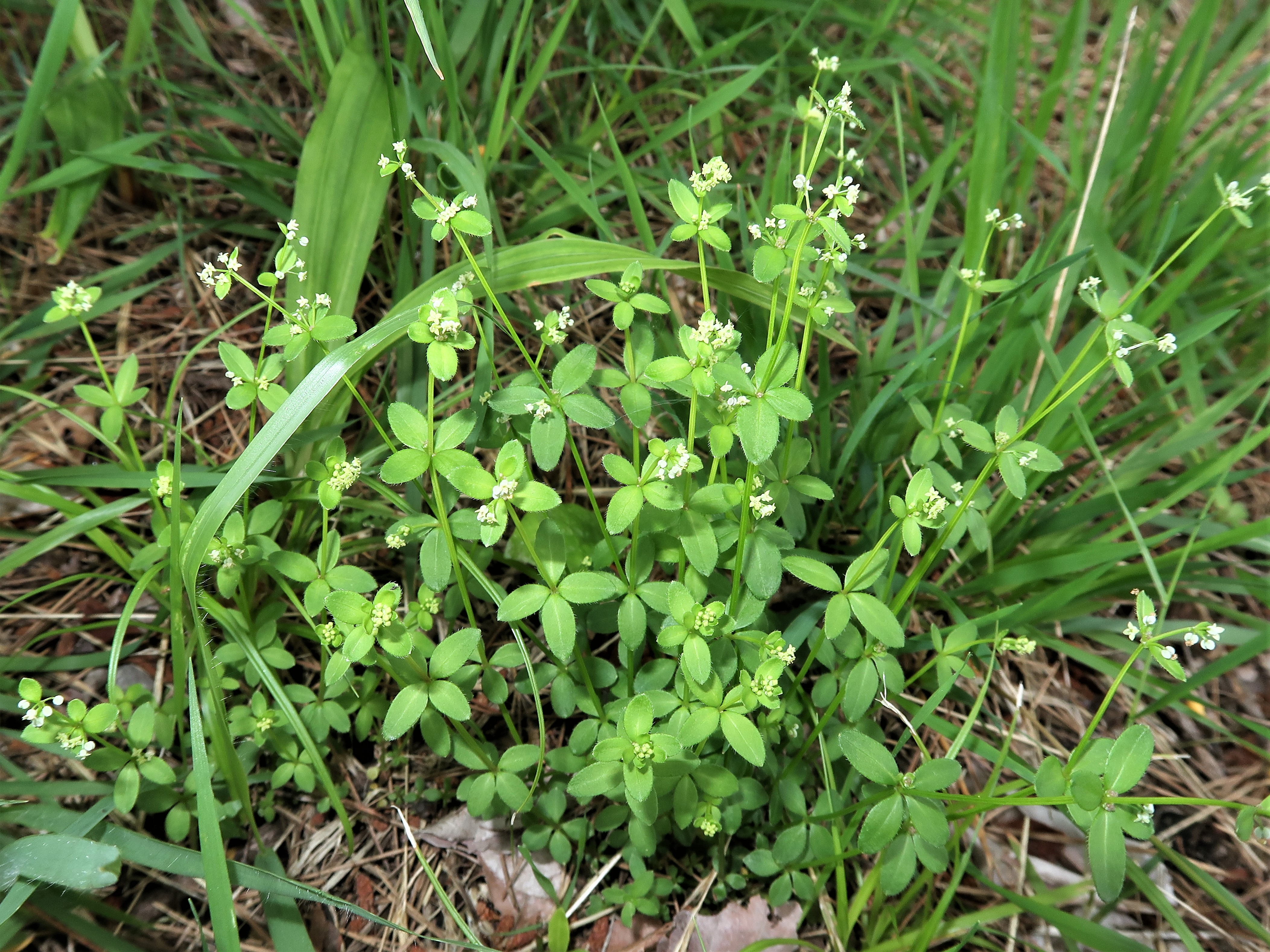 Galium trachyspermum , Aizu area, Fukushima pref., Japan